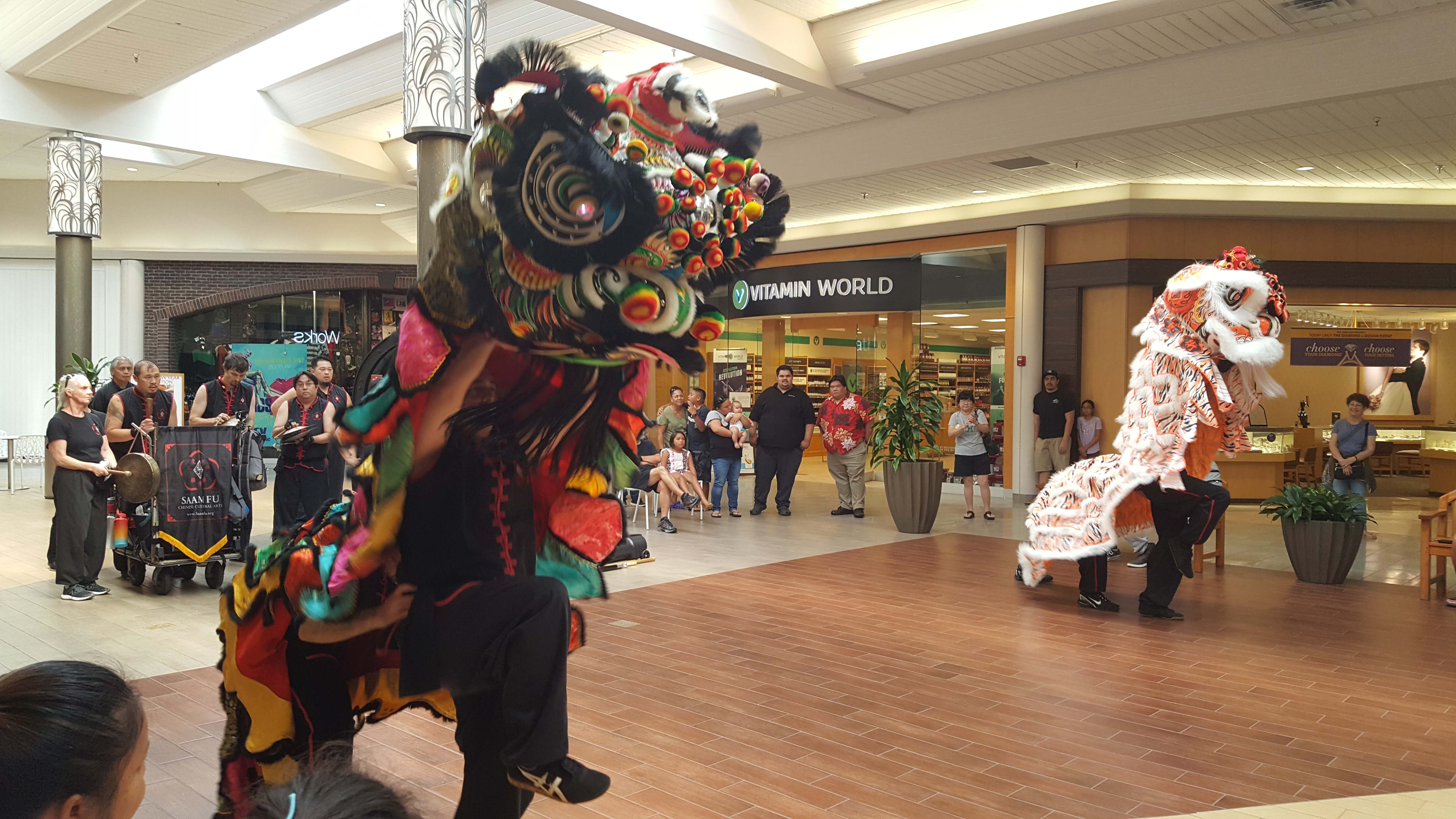 Prince Kuhio Plaza, Hilo, Hawaii, USA - Event, Lion dance